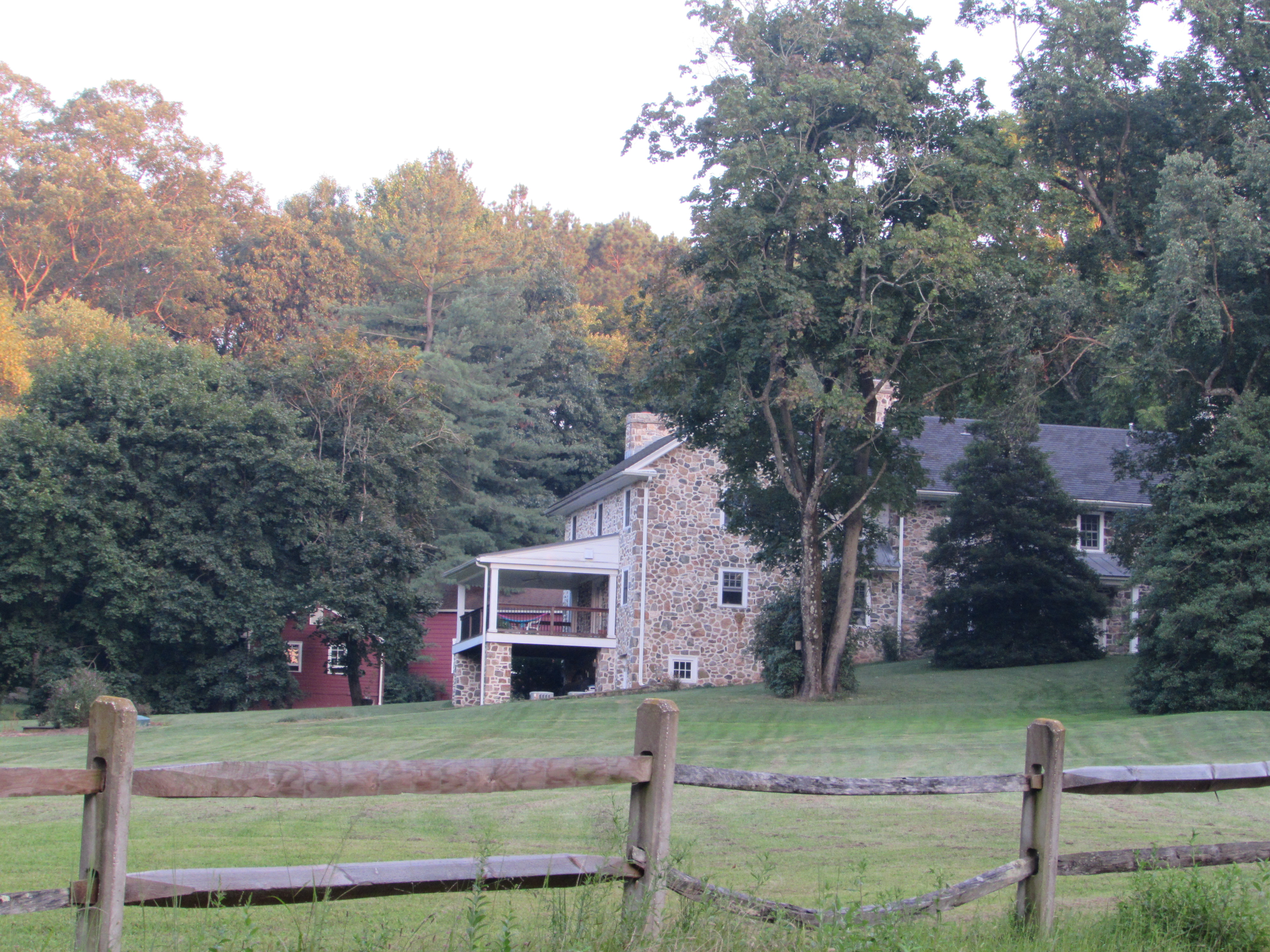 Farmhouse on the S.P. Dixon Farm, on the National Register of Historic Places near Ashland, Delaware. The original house is on the right, partly concealed by trees; the portion of the house on the left is a new addition built in a similar style.